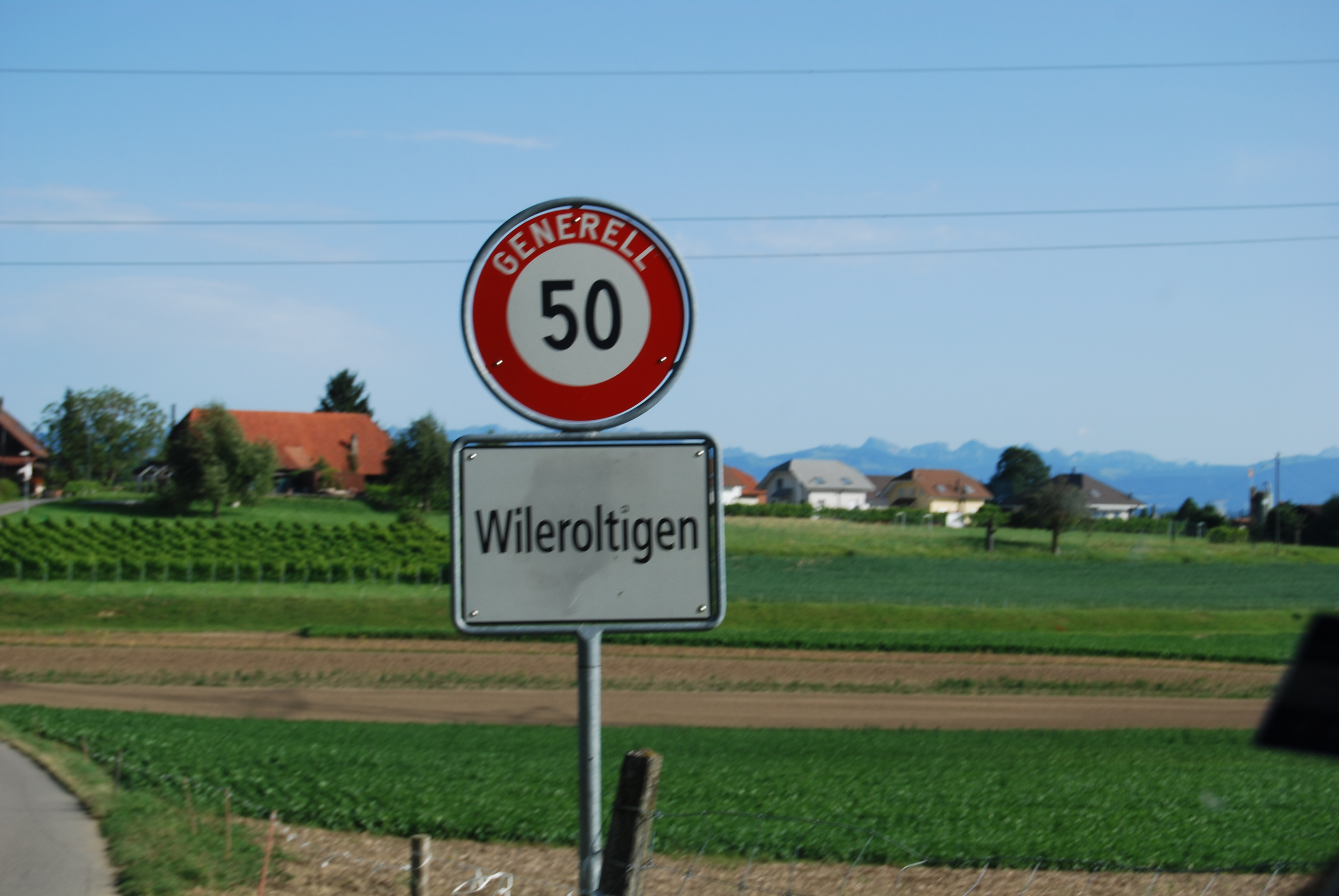 Wileroltigen, canton of Bern, SwitzerlandEsperanto: Wileroltigen, Kantono Berno, Svislando